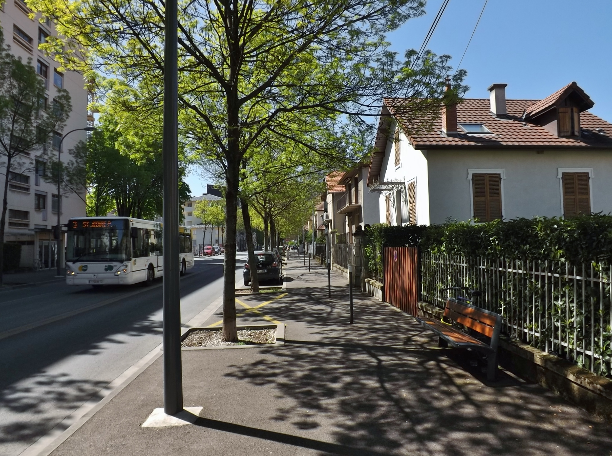 Sight of the boulevard Gambetta with a passing STAC bus line 3 approaching the Chambéry city center, Savoie, France.